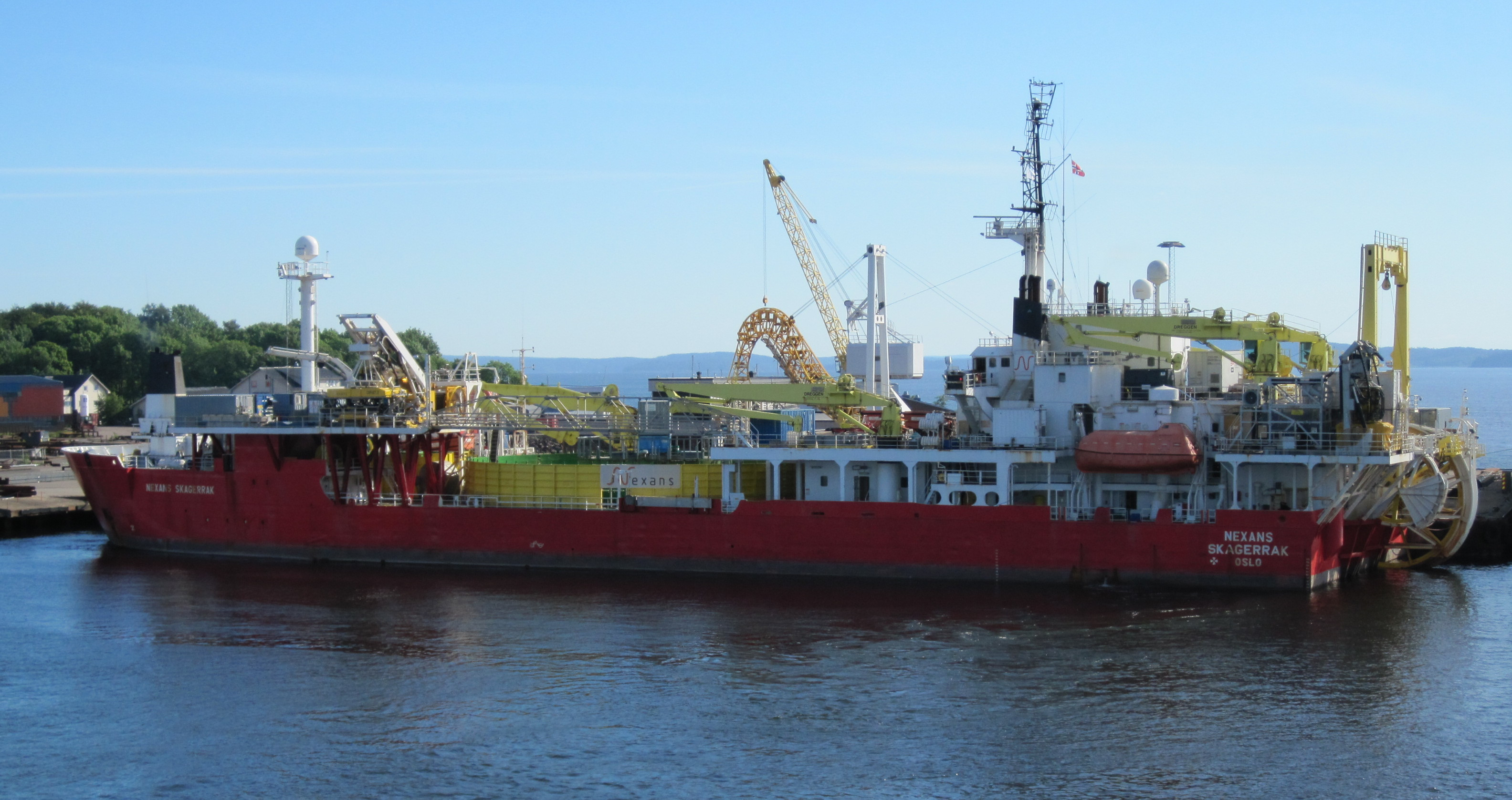 The CS Nexans Skagerrak cable laying ship in Horten, Norway